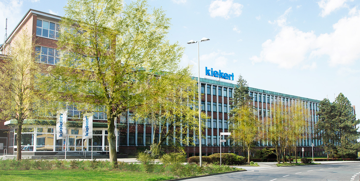 Kiekert AG, Heiligenhaus